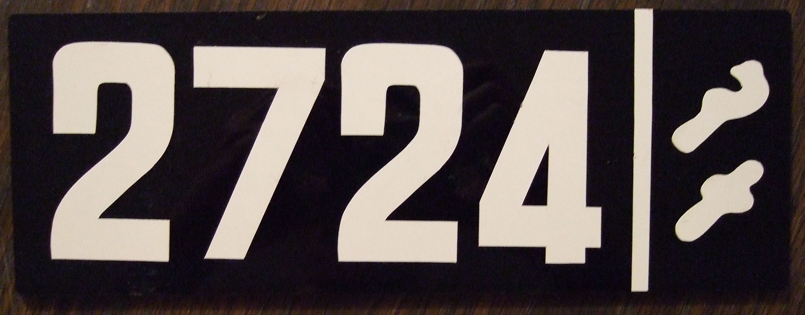 A small group of islands southwest of southern tip of India known for vacation and recreation. this plate is plexiglas with stick on numbers. I am not sure what the symbols on the right are. Anyone know?